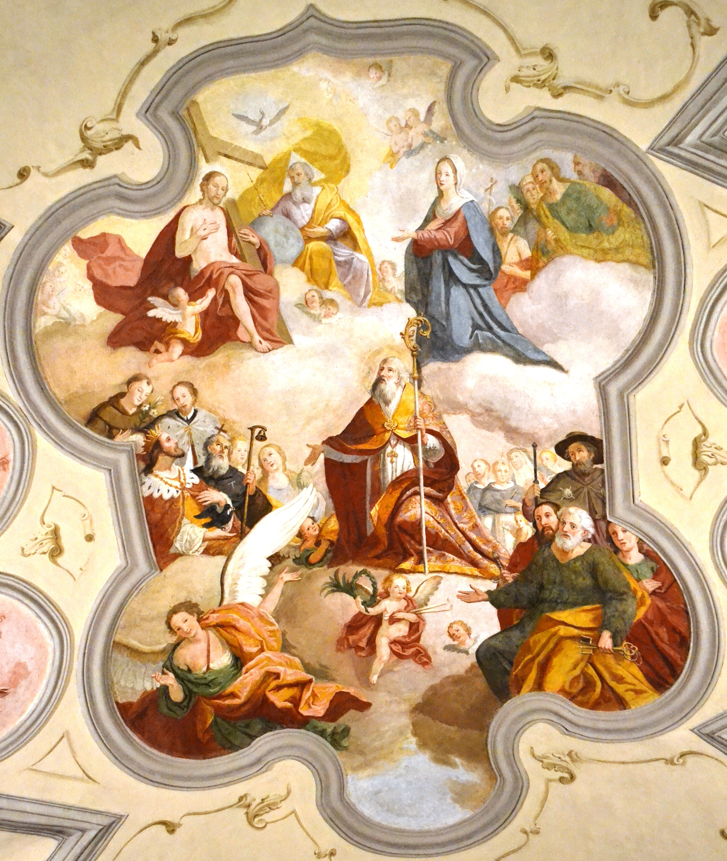 Valentino Rovisi, Saint Blaise, 1780, fresco, San Biagio church in Alleghe